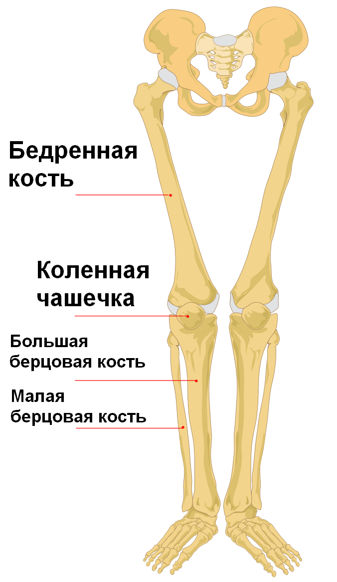 Labeled human leg bones (Russian)